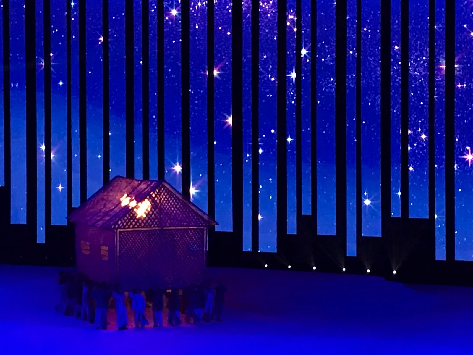 A production number focused on the Bahay Kubo during the Opening Ceremony of the 30th South East Asian Games held at Philippine Arena in Bocaue, Bulacan. (Mar Jay Delas Alas/PIA 3)